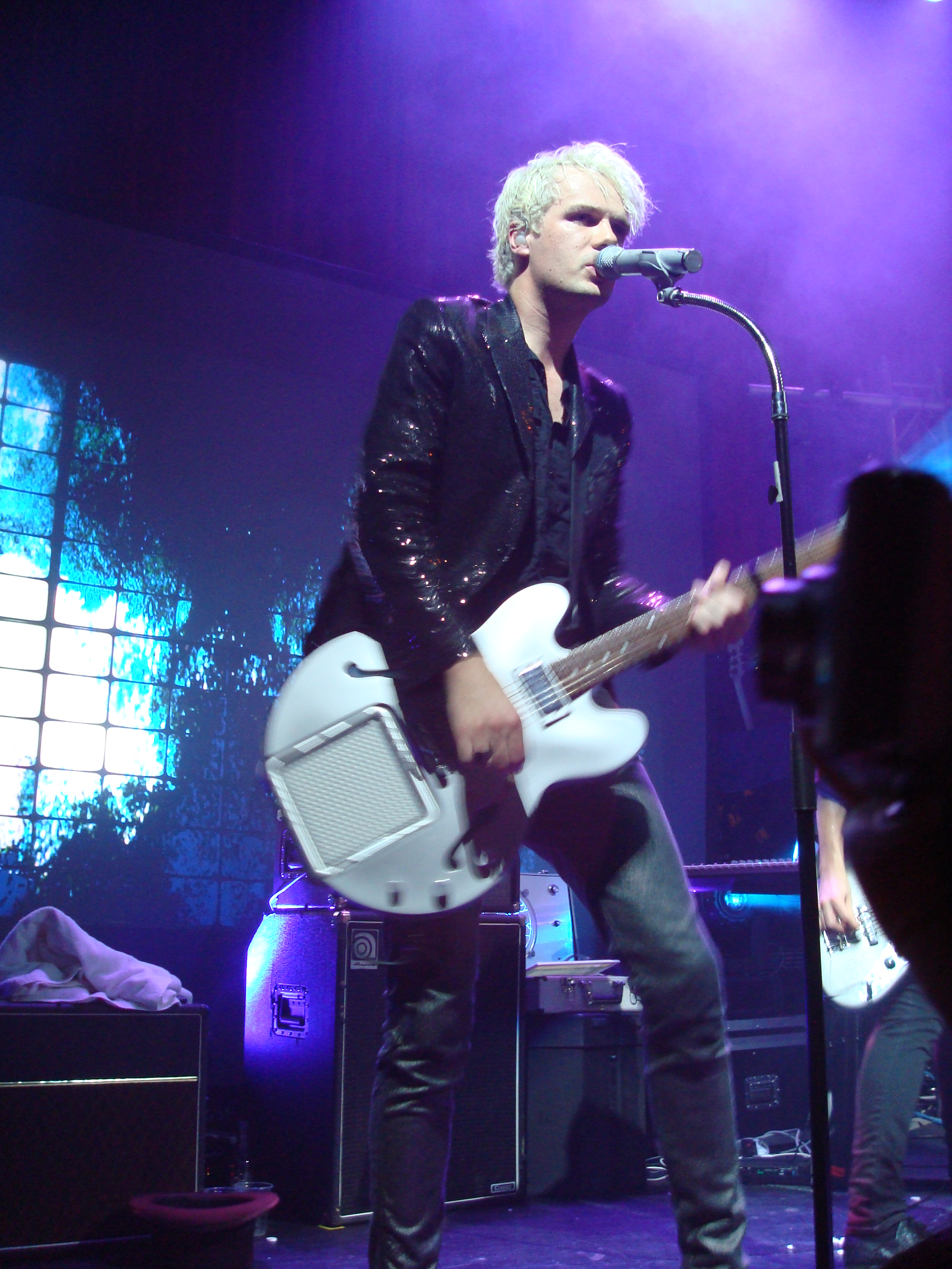 Evermore at The Capitol in Perth, 2009 (Jon Hume pictured)